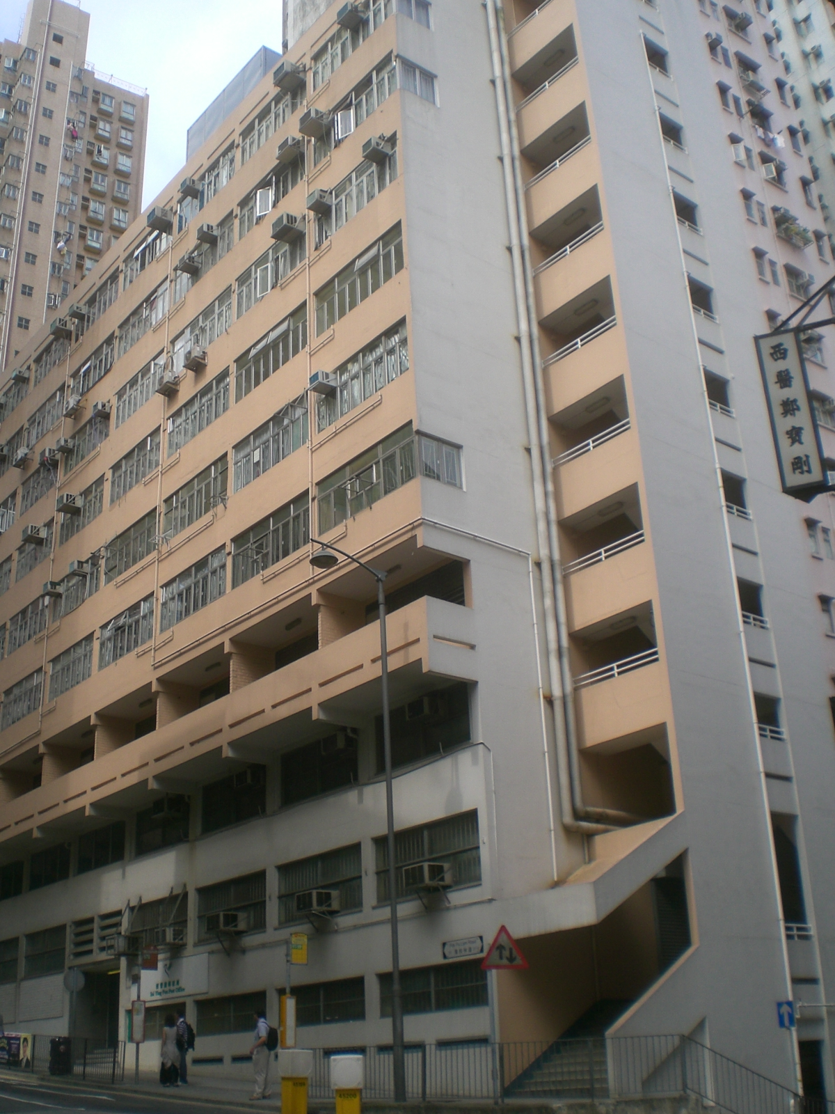 西營盤